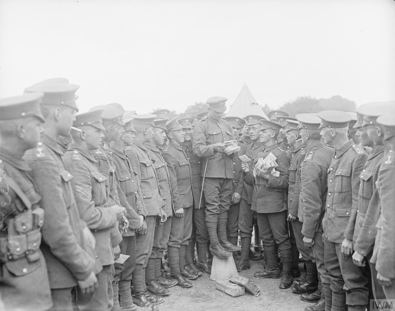 Ministry of Information First World War Miscellaneous Collection Tadworth Camp. Training of a soldier. July 16th 1917. Arrival of the mail - giving out the letters.